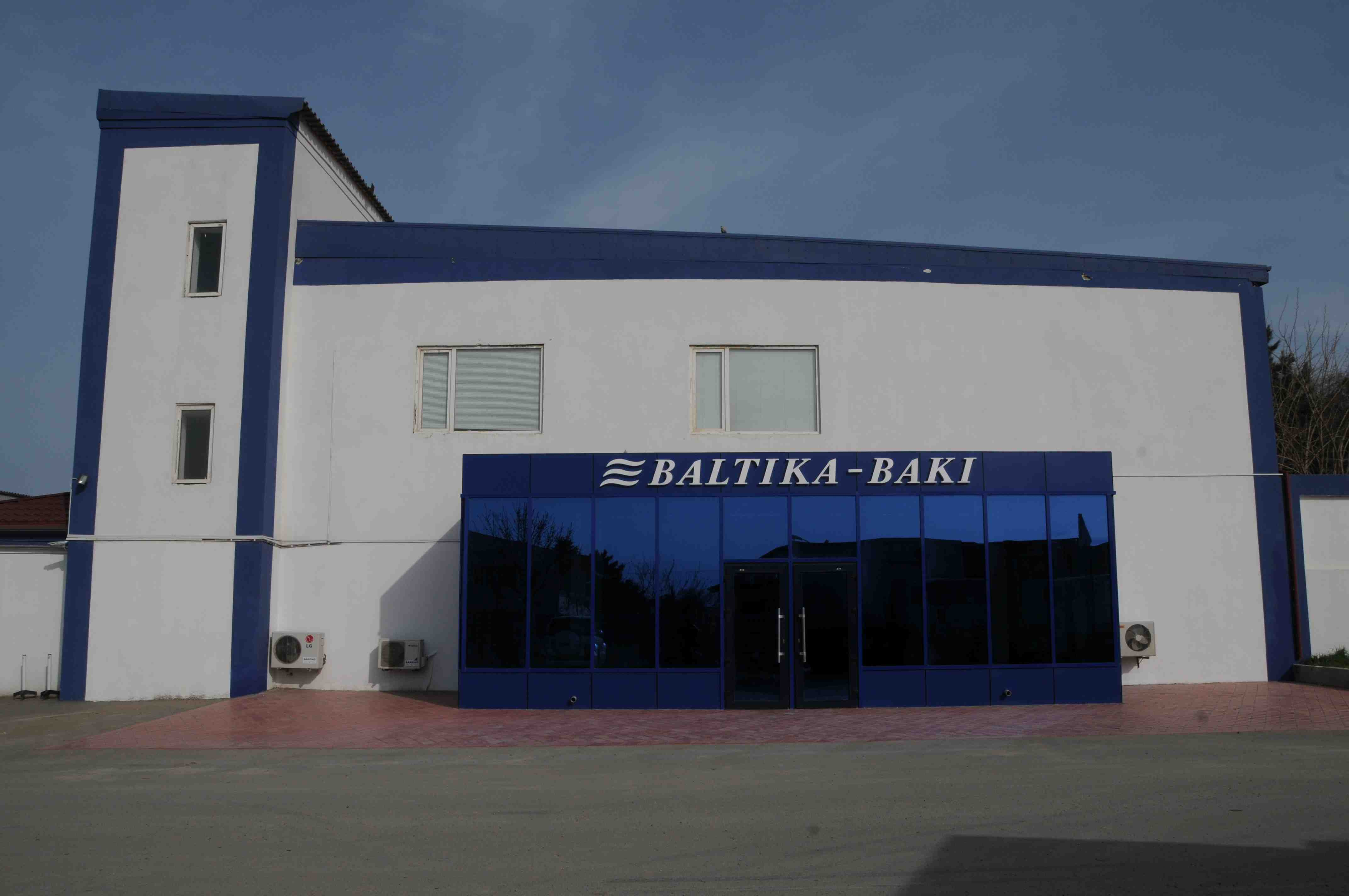 Baltika Breweries